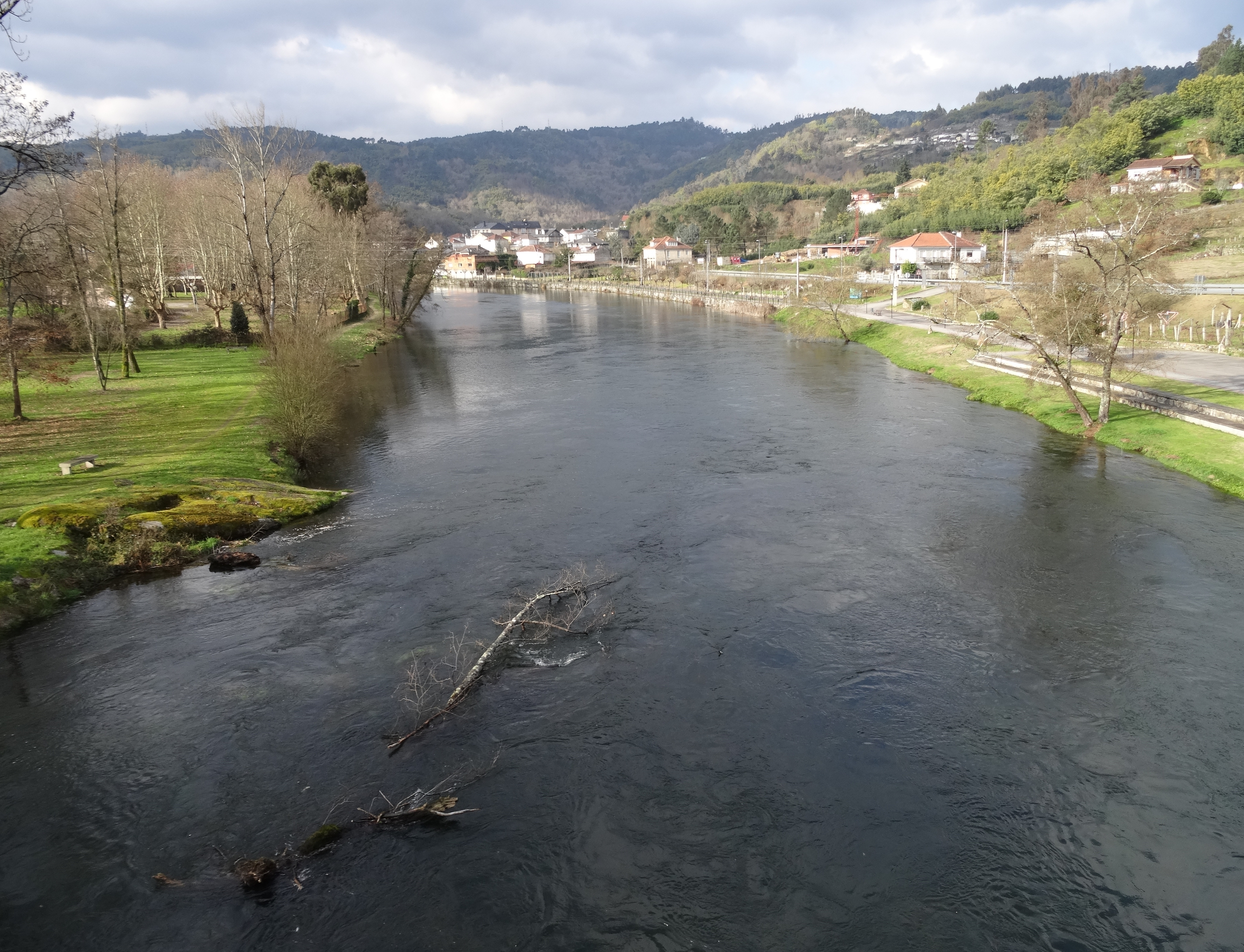 Avia river at Leiro municipality, Ourense.